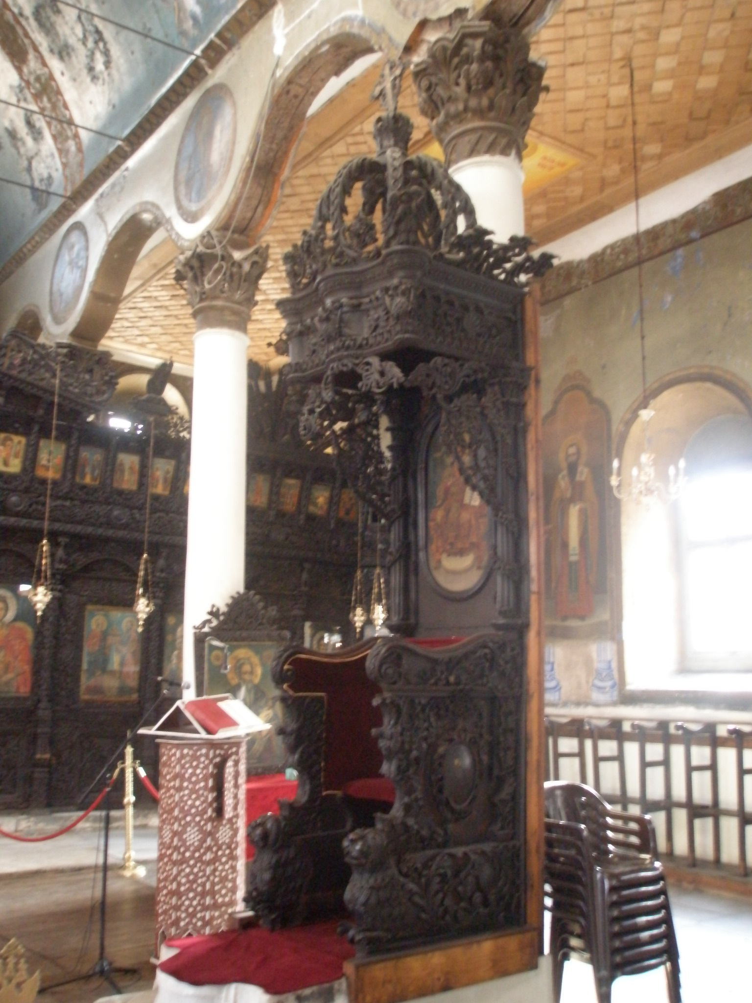 Вл.трон